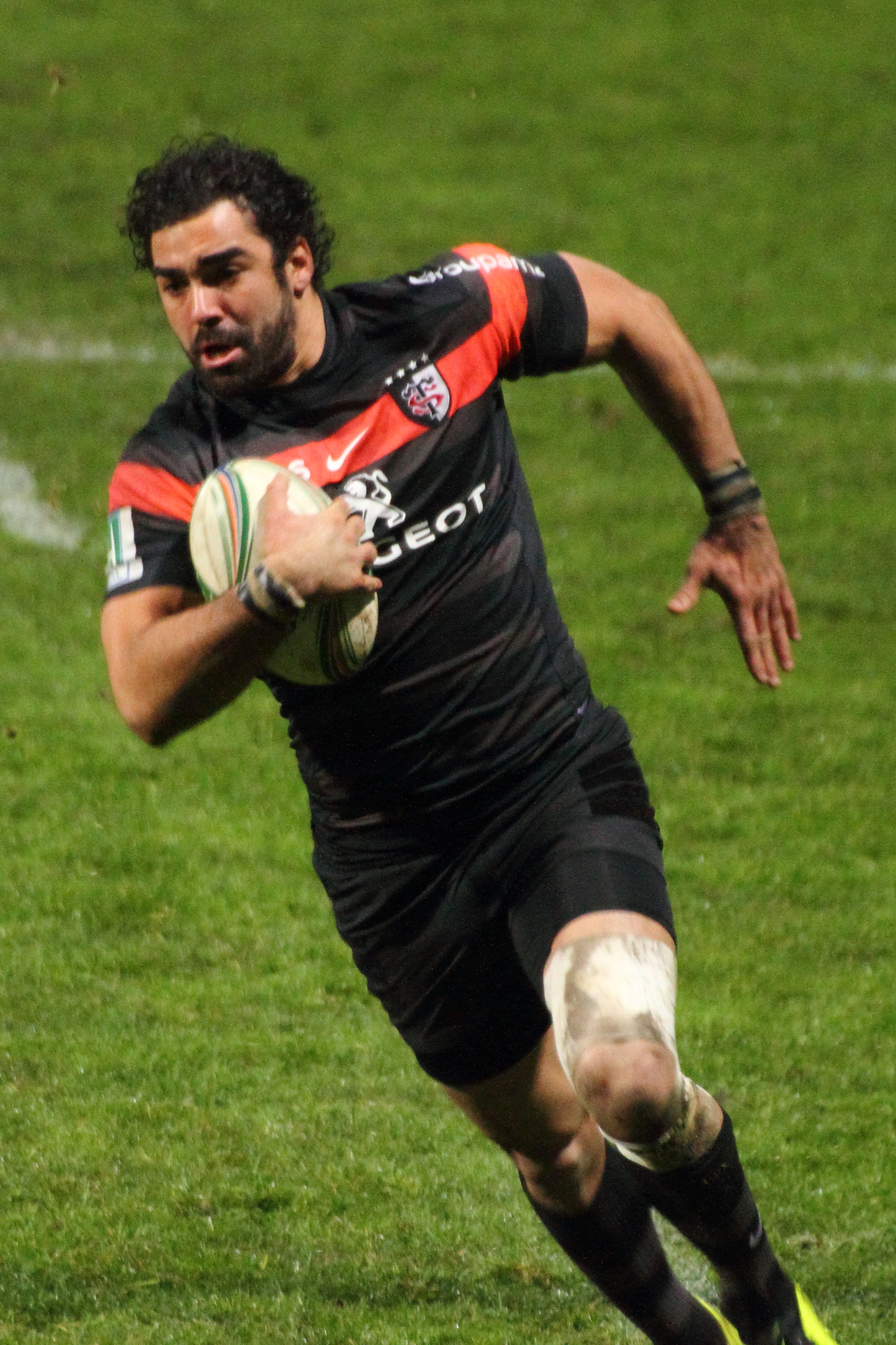 Heineken Cup — 13 January 2013, Stade Ernest-Wallon. Match between: Stade toulousain — Benetton Rugby Treviso